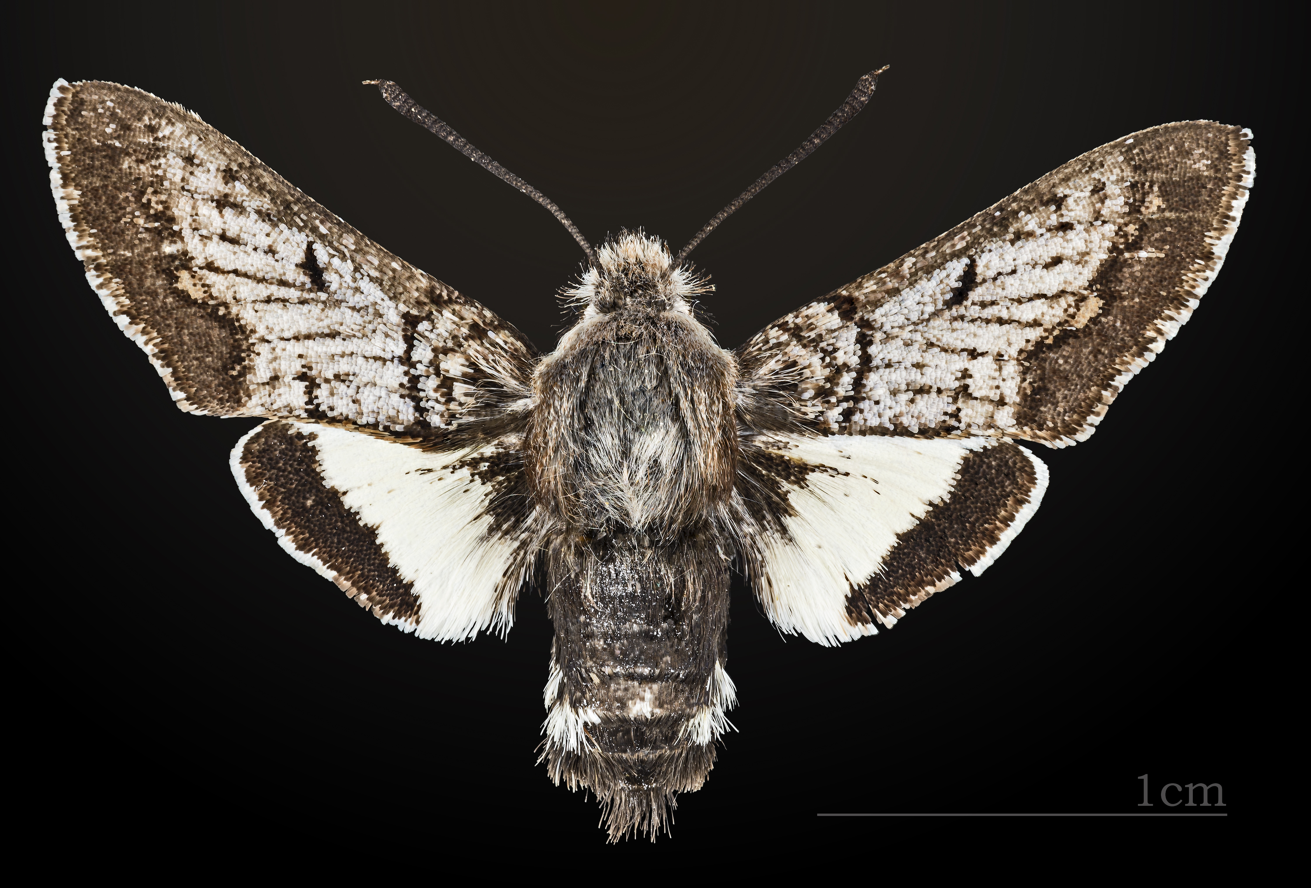 Phaeton Primrose Sphinx Moth - Dorsal side Collection of the Mathematician Laurent Schwartz